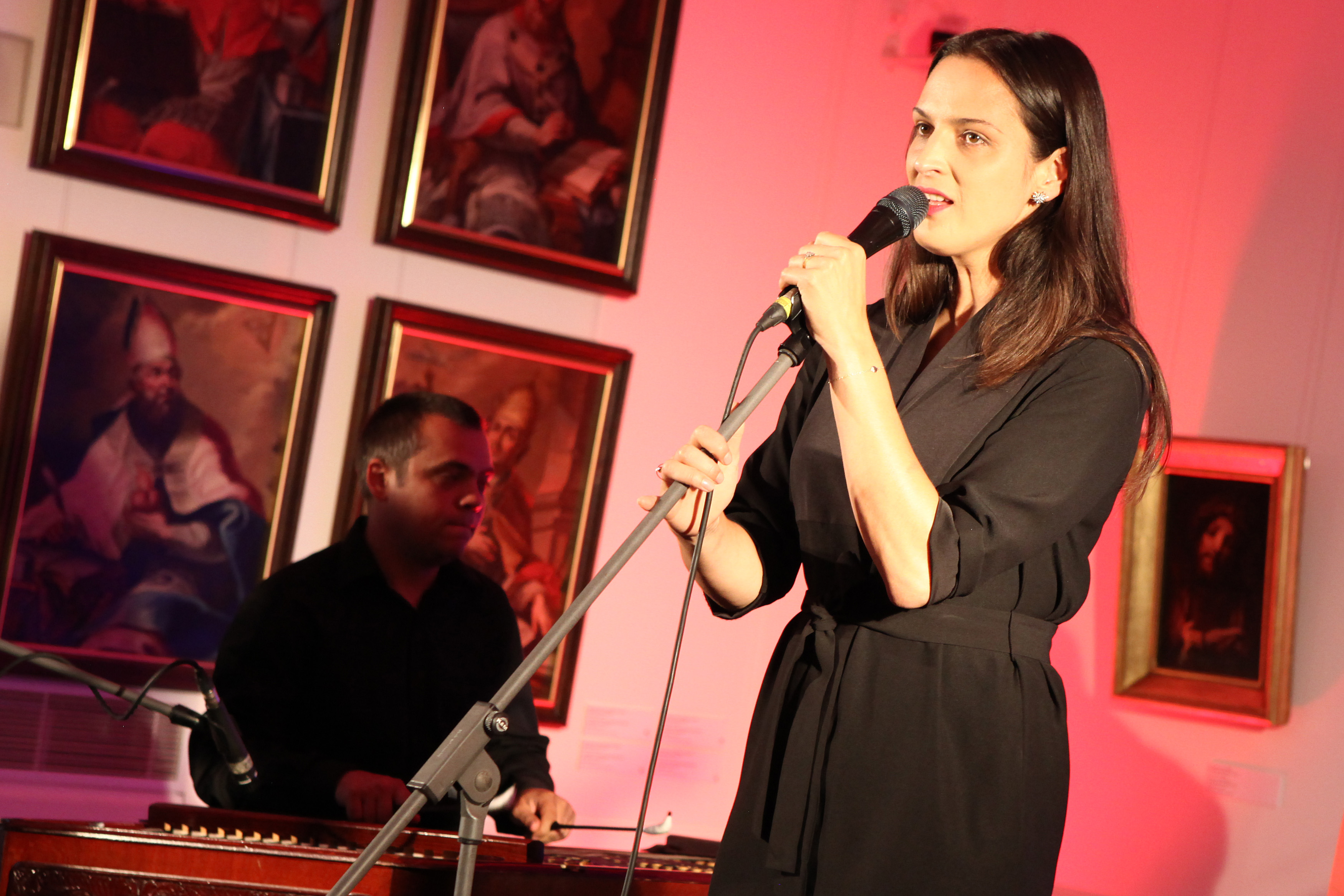 Opening Musical Performance – Jana Kirschner Photo: Andrej Klizan